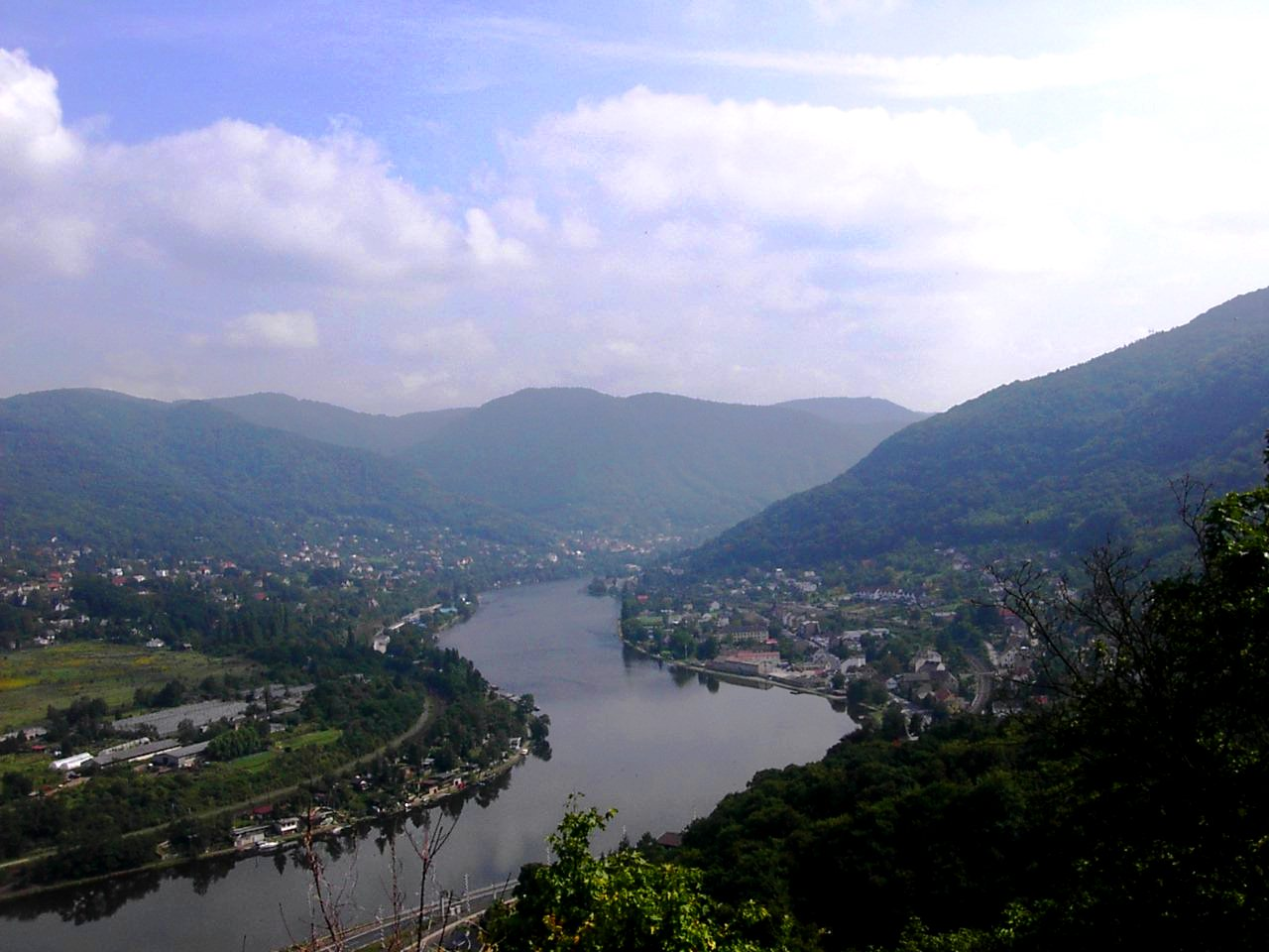 Porta Bohemica with village of Vaňov, Czech Republic